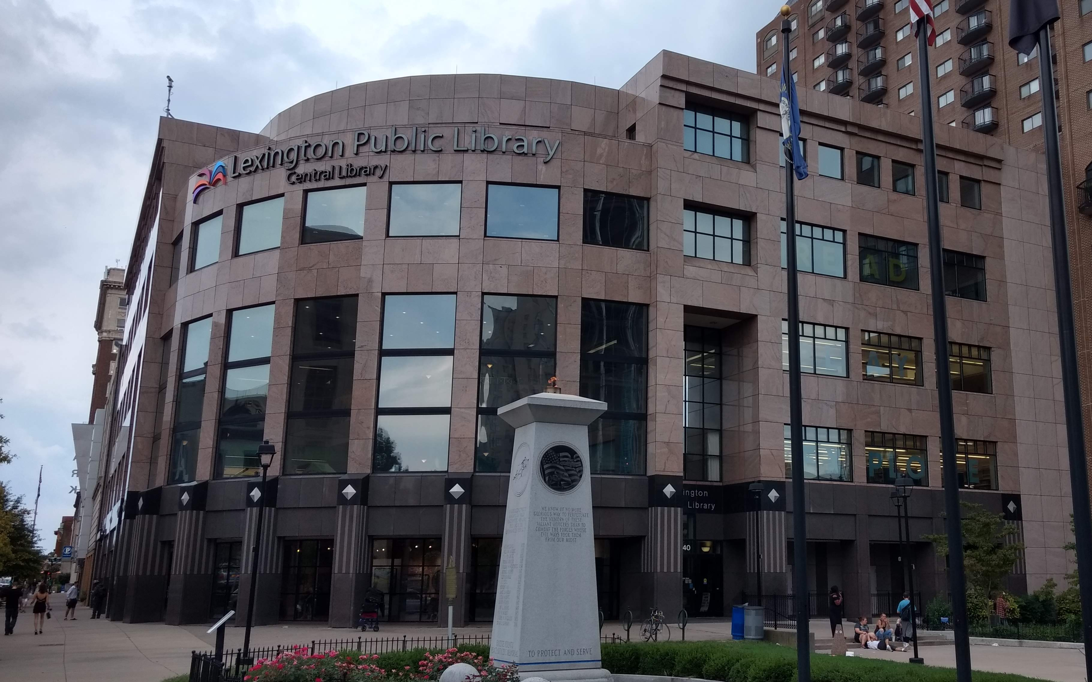 Main Lexington Public Library 2018